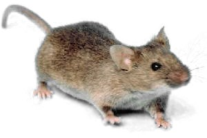 Common house mouse (Mus musculus), wild type. Edited to change the background color.